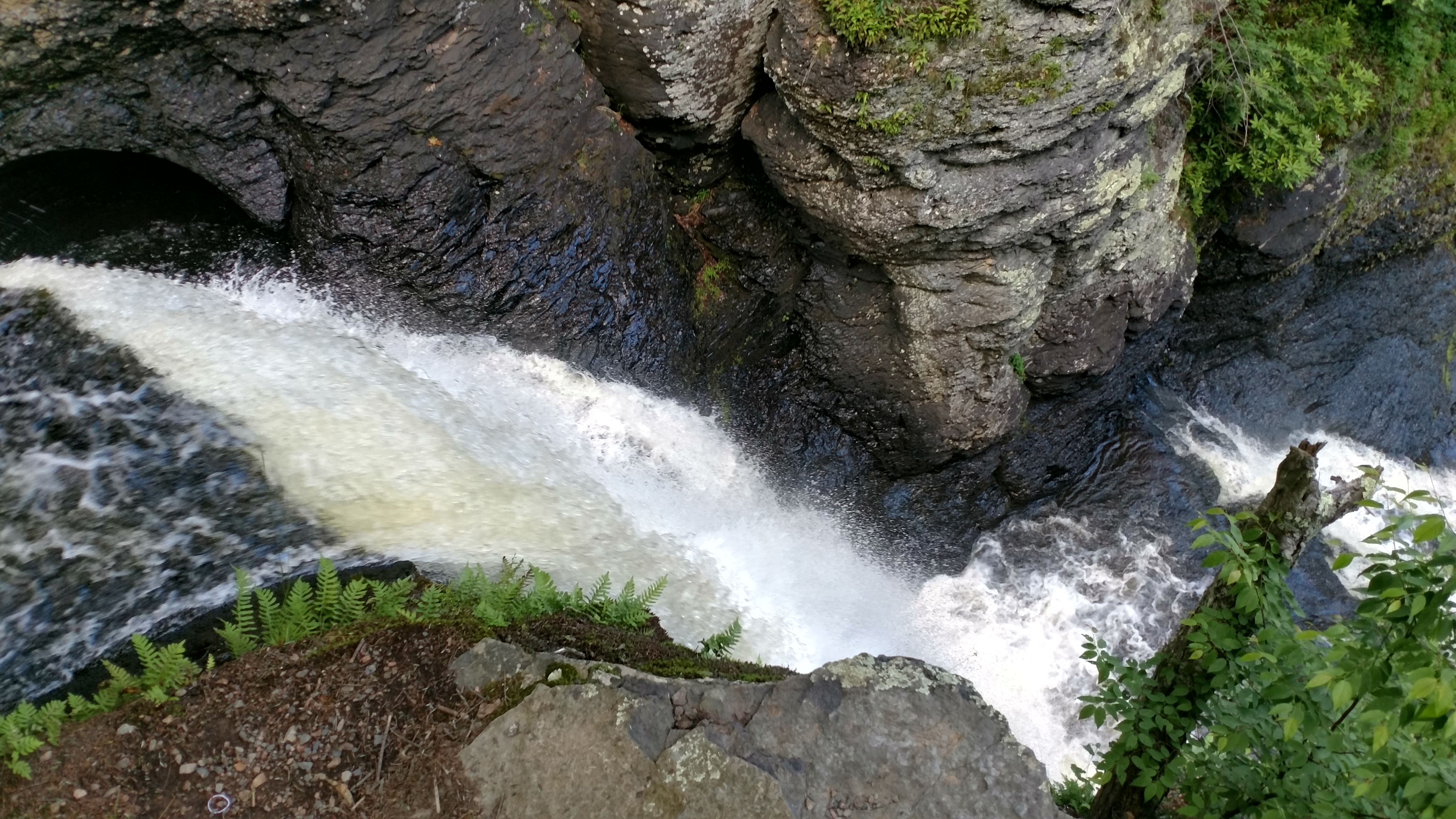 Dingmans Birds Eye View